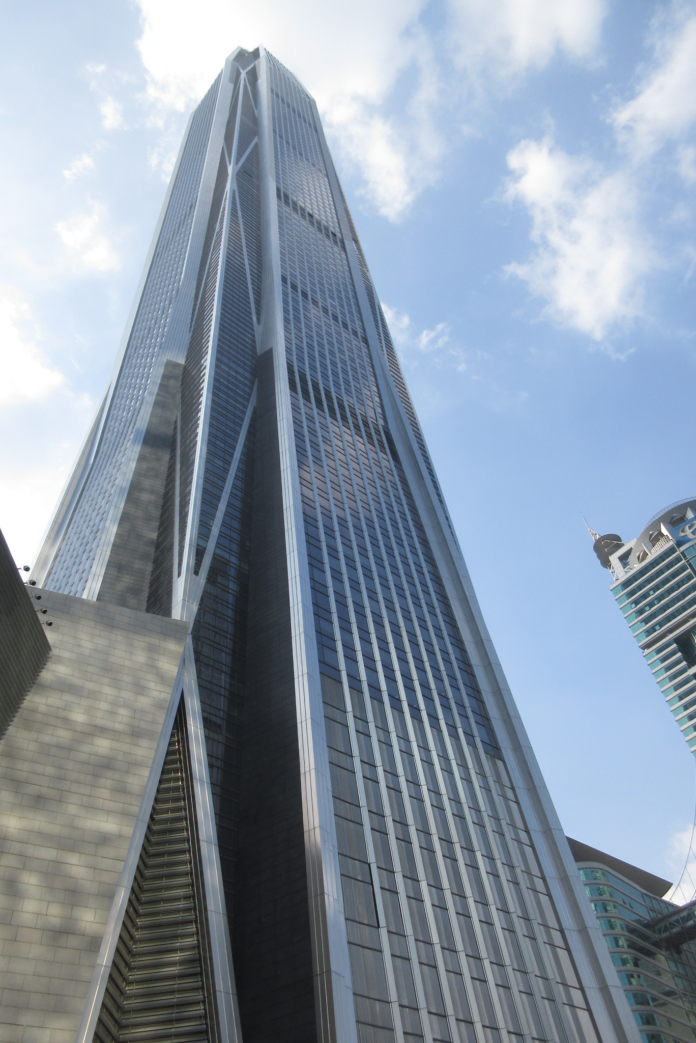 SZ 深圳 Shenzhen 福田 Futian 益田路 Yitian Road 平安國際金融中心 PingAn IFC in October 2017